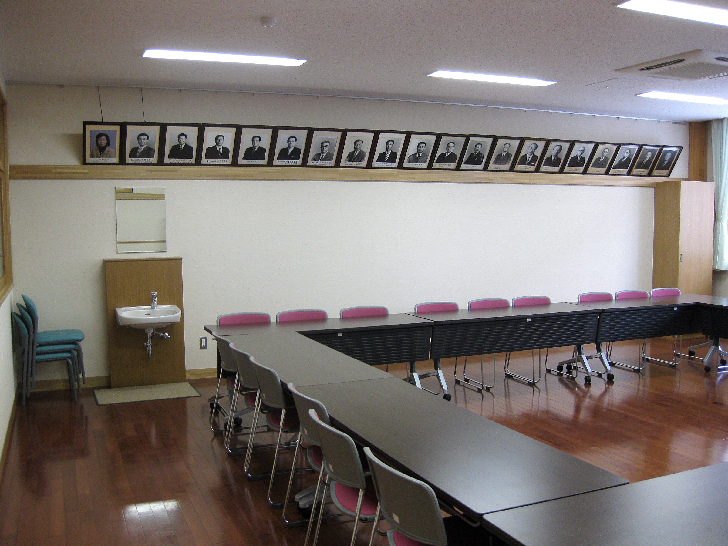 2nd floor junior high school conference room. Yashima Junior High School. Yashima, Yurihonjo, Akita, Japan.